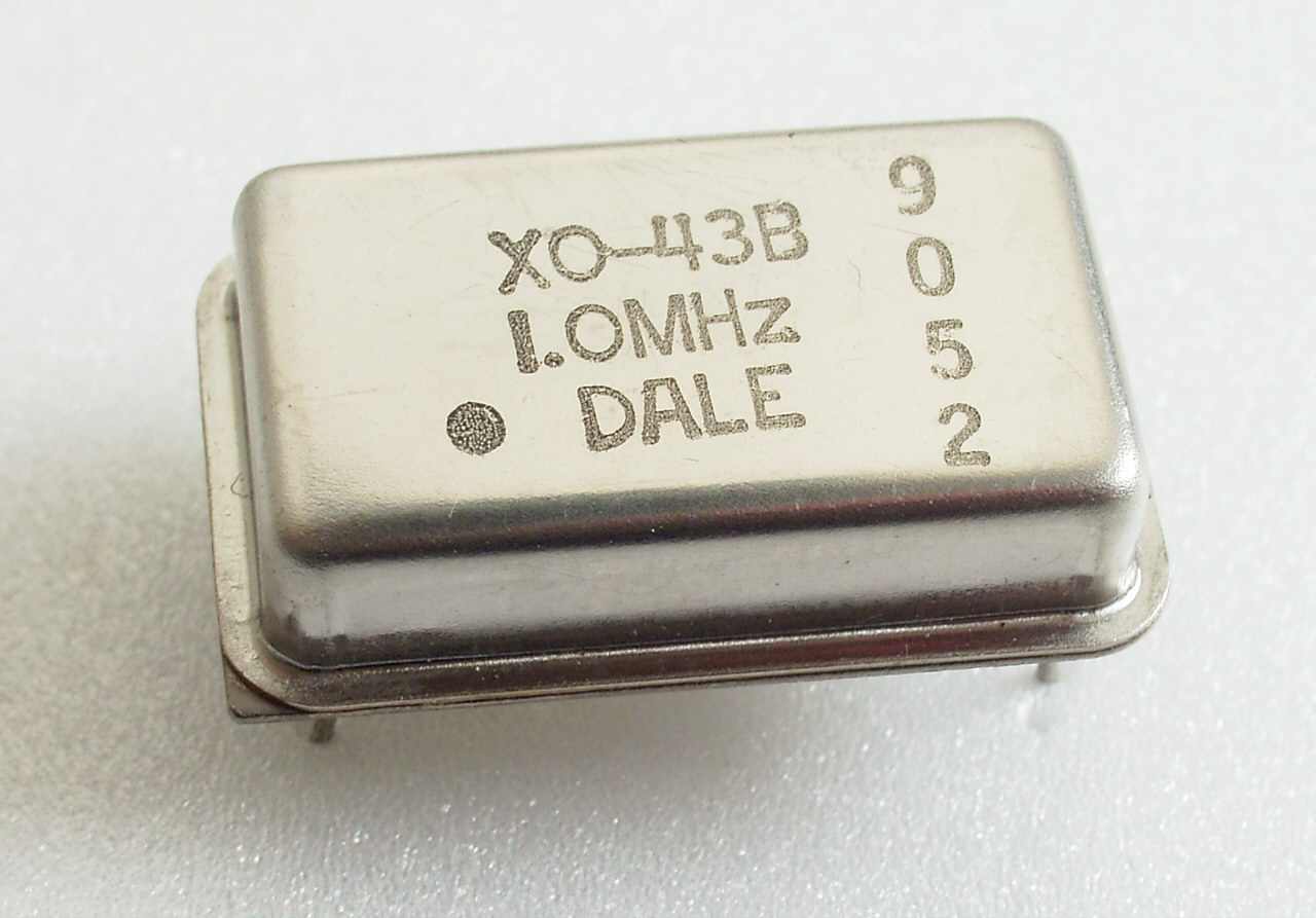 Integrated 1 MHz quartz crystal oscillator circuit for installation on a printed circuit board